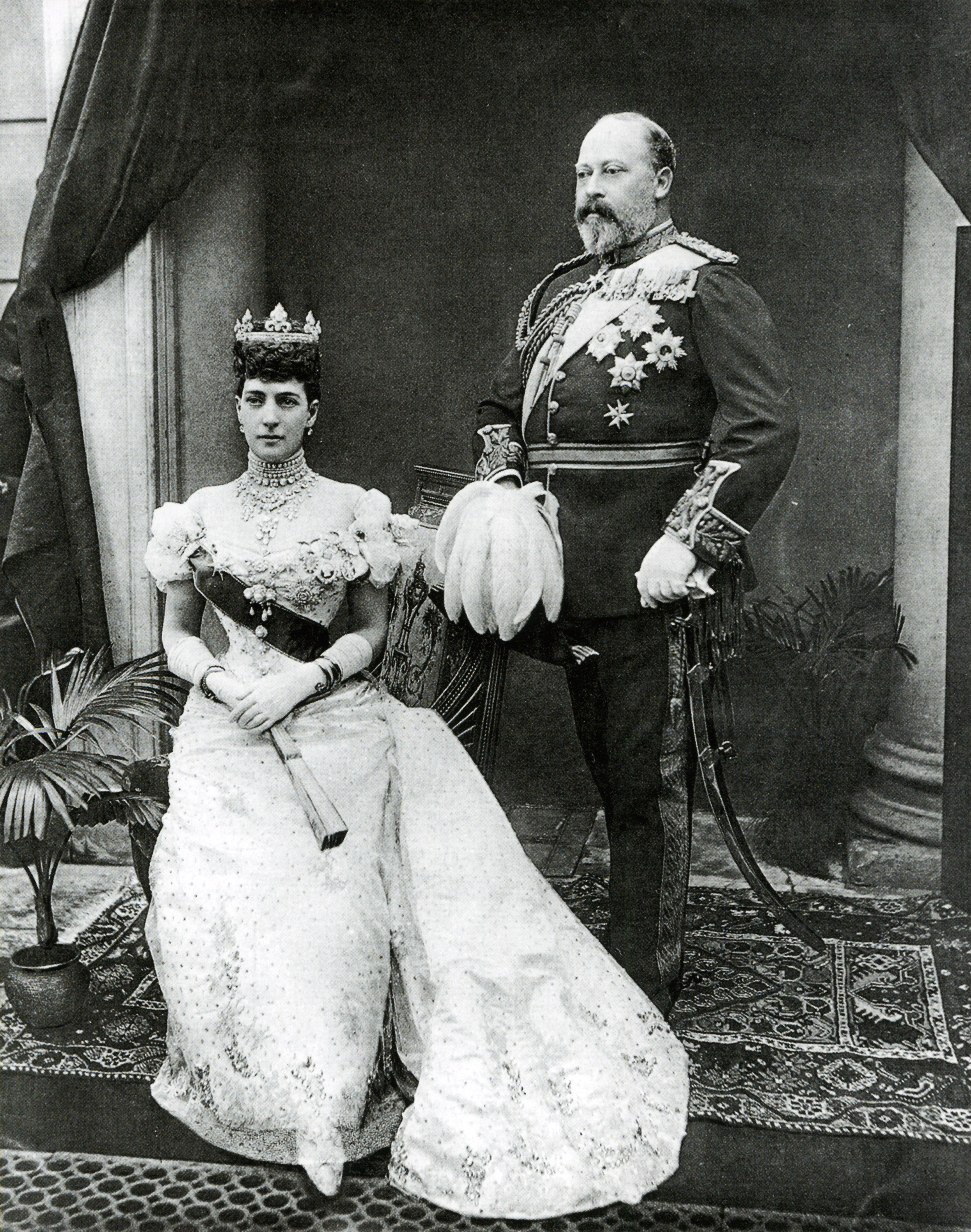 This PNG image has a thumbnail version at File: Edward VII and Alexandra after Gunn & Stuart.jpg. Generally, the thumbnail version should be used when displaying the file from Commons, in order to reduce the file size of thumbnail images. Any edits to the image should be based on this PNG version in order to prevent generational loss, and both versions should be updated. See here for more information. Edward VII and Alexandra, by Rembrandt Photogravure, after Gunn & Stuart. photogravure, 1896. 11 3/8 in. x 9 in. (288 mm x 230 mm). National Portrait Gallery: NPG x22287 While Commons policy accepts the use of this media, one or more third parties have made copyright claims against Wikimedia Commons in relation to the work from which this is sourced or a purely mechanical reproduction thereof. This may be due to recognition of the "sweat of the brow" doctrine, allowing works to be eligible for protection through skill and labour, and not purely by originality as is the case in the United States (where this website is hosted). These claims may or may not be valid in all jurisdictions. As such, use of this image in the jurisdiction of the claimant or other countries may be regarded as copyright infringement. Please see Commons:When to use the PD-Art tag for more information.See User:Dcoetzee/NPG legal threat for original threat and National Portrait Gallery and Wikimedia Foundation copyright dispute for more information. This tag does not indicate the copyright status of the attached work. A normal copyright tag is still required. See Commons:Licensing.